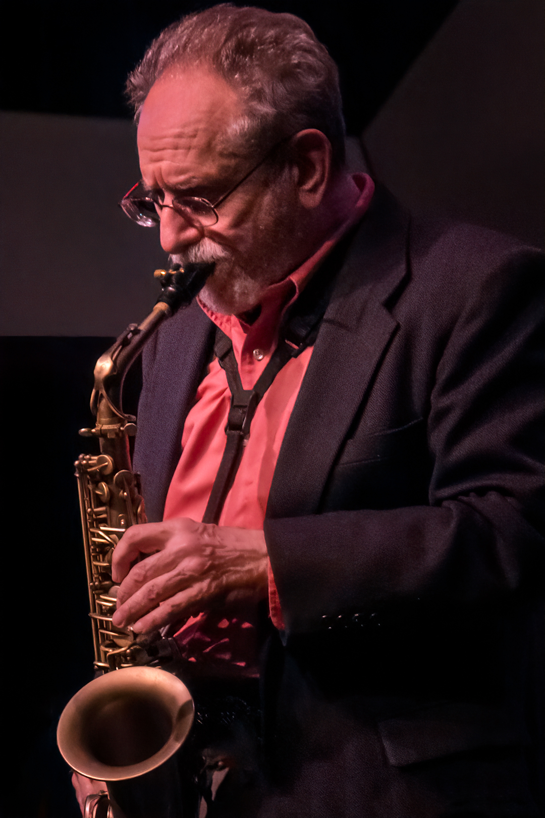 Taken February 21, 2017 at the Saville Theater on the campus of San Diego City College at concert for Jazz 88.3 radio, San Diego.